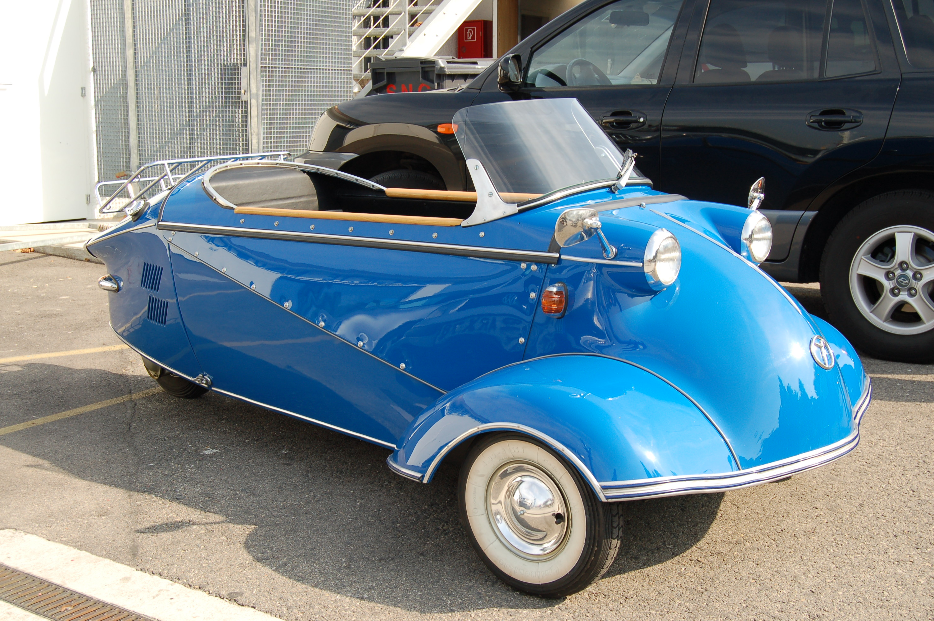 Messerschmitt Kabinenroller in front of the Yacht club Geneva